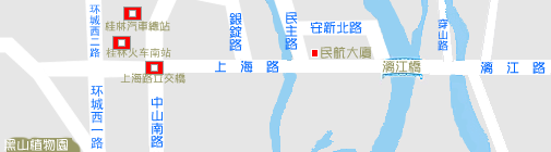 This is the road of GuiLin that named ShangHai Road.